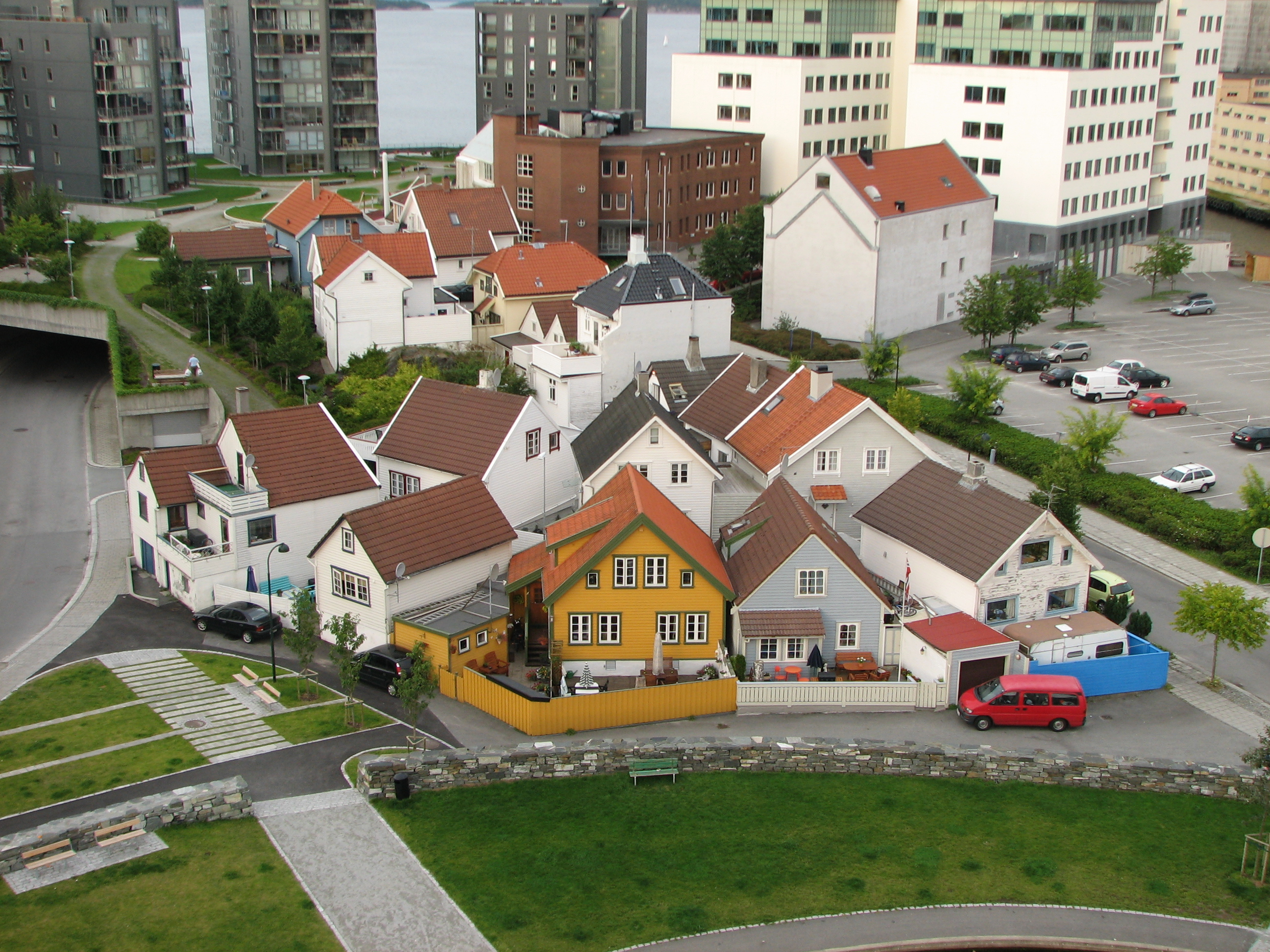 Stavanger - houses below the bridge